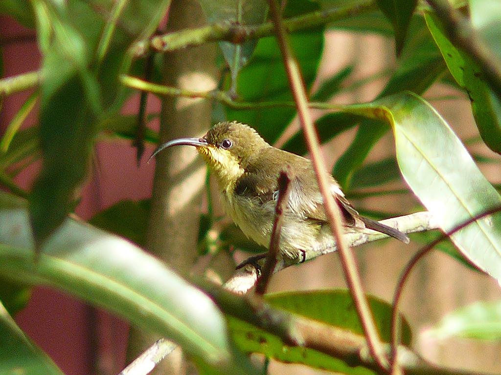 The Loten's Sunbird. This individual is a female and that is why it is brown on top and yellow below. The males have a metallic purple-blue colour over most of their bodies including the wings.